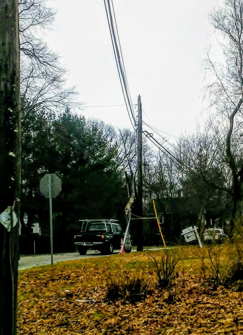 Damage to a utility pole on Arcade Avenue in Seekonk, Massachusetts following the March 1-3, 2018 nor'easter.